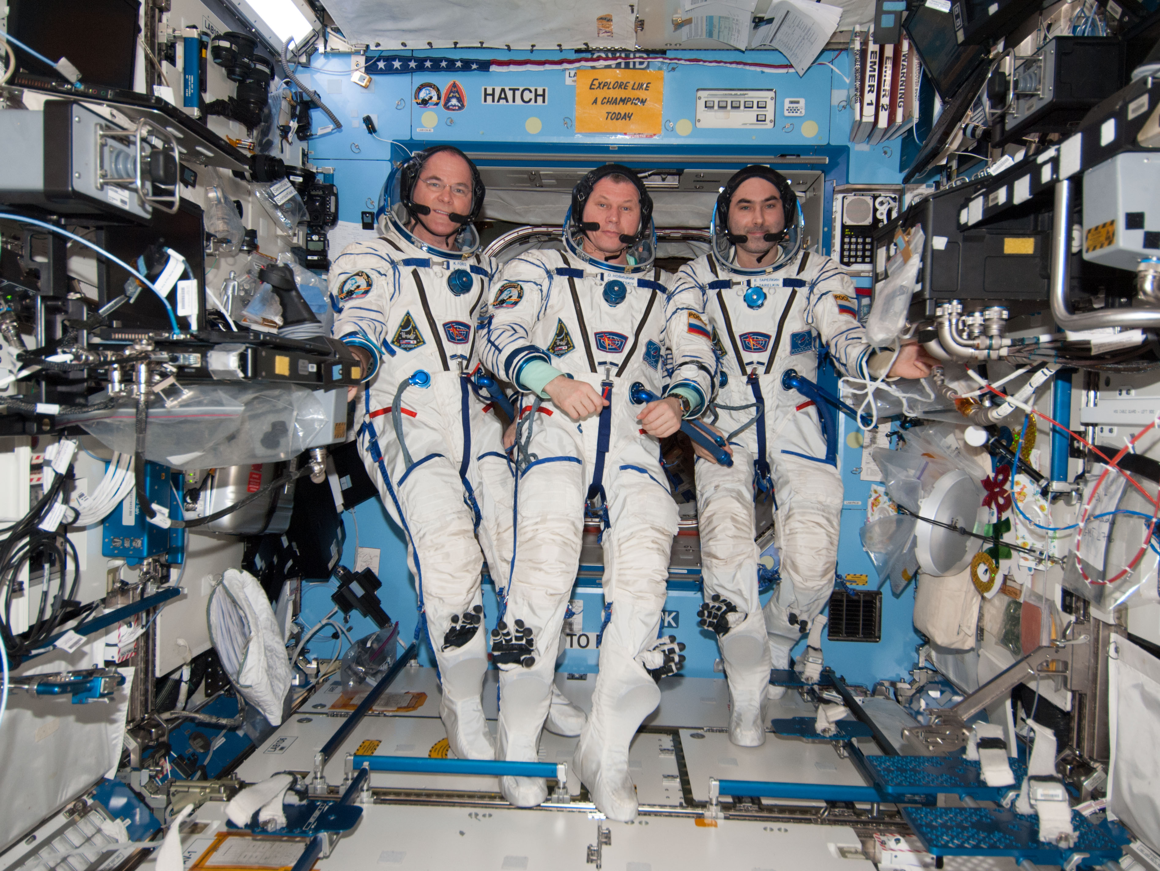 With their scheduled stay onboard the International Space Station headed toward its final days, three members of the Expedition 34 crew pose for some photographs in their Sokol suits in the U.S. lab or Destiny. From left are NASA astronaut Kevin Ford, commander; with Roscosmos Flight Engineers Oleg Novitskiy and Evgeny Tarelkin. Two days earlier, the trio joined crew members from Russia, the U.S. and Canada in welcoming the arrival of fresh food and supplies aboard the SpaceX Dragon spacecraft.